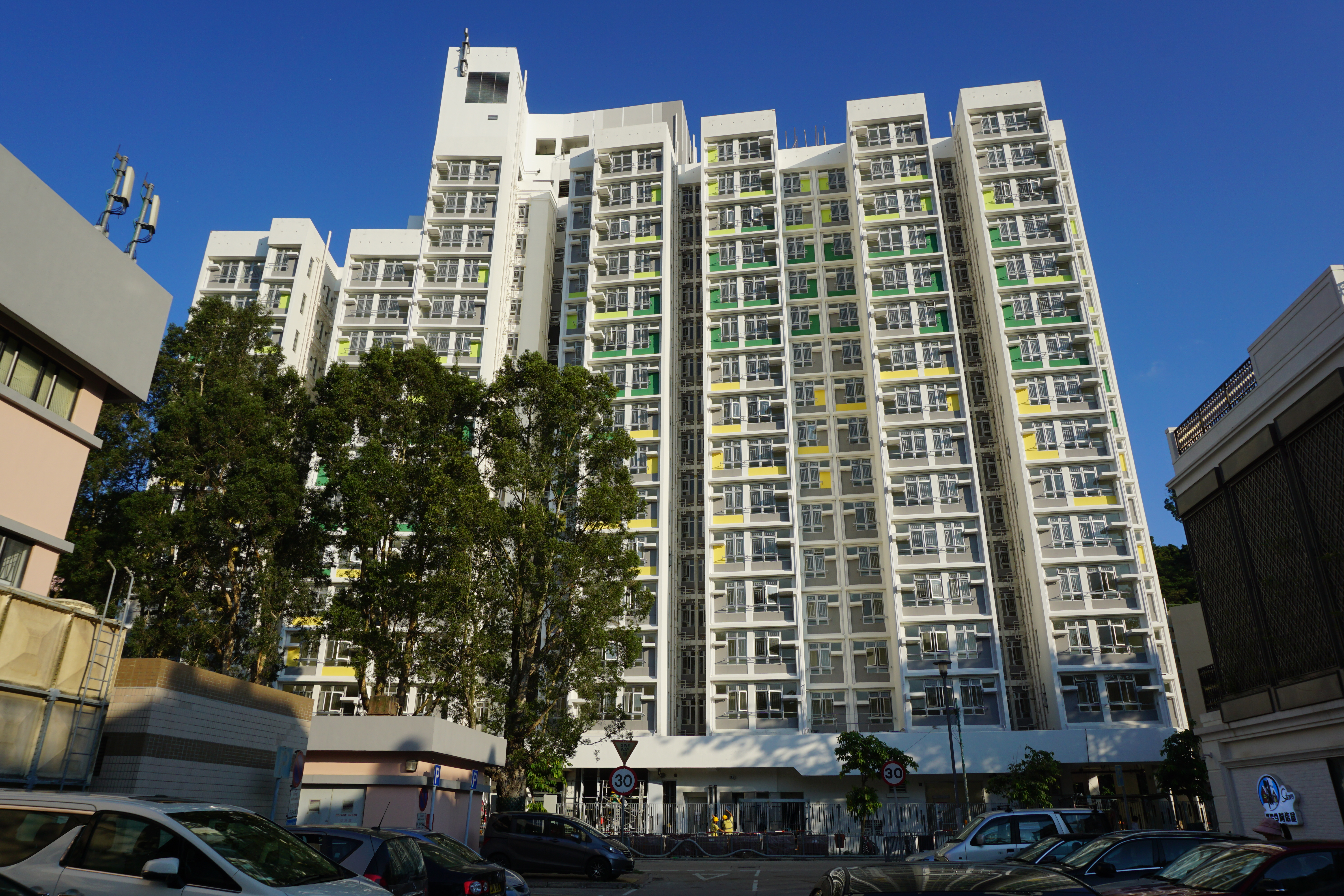 Ngan Wai Court in Mui Wo, Hong Kong.